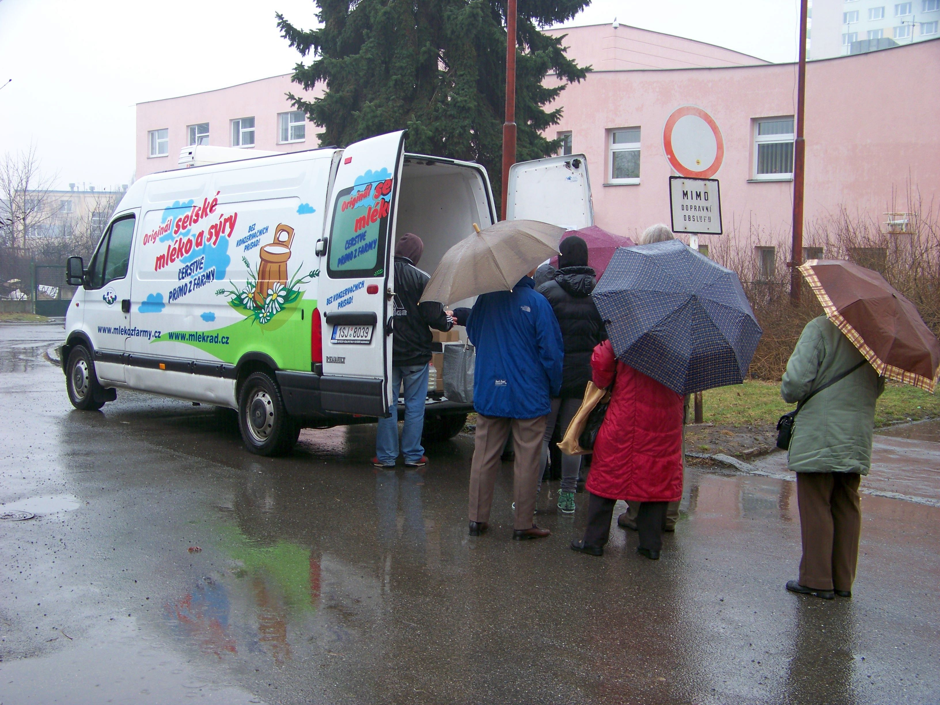 Prague-Záběhlice, the Czech Republic. Zvonková street, milk retail vehicle.